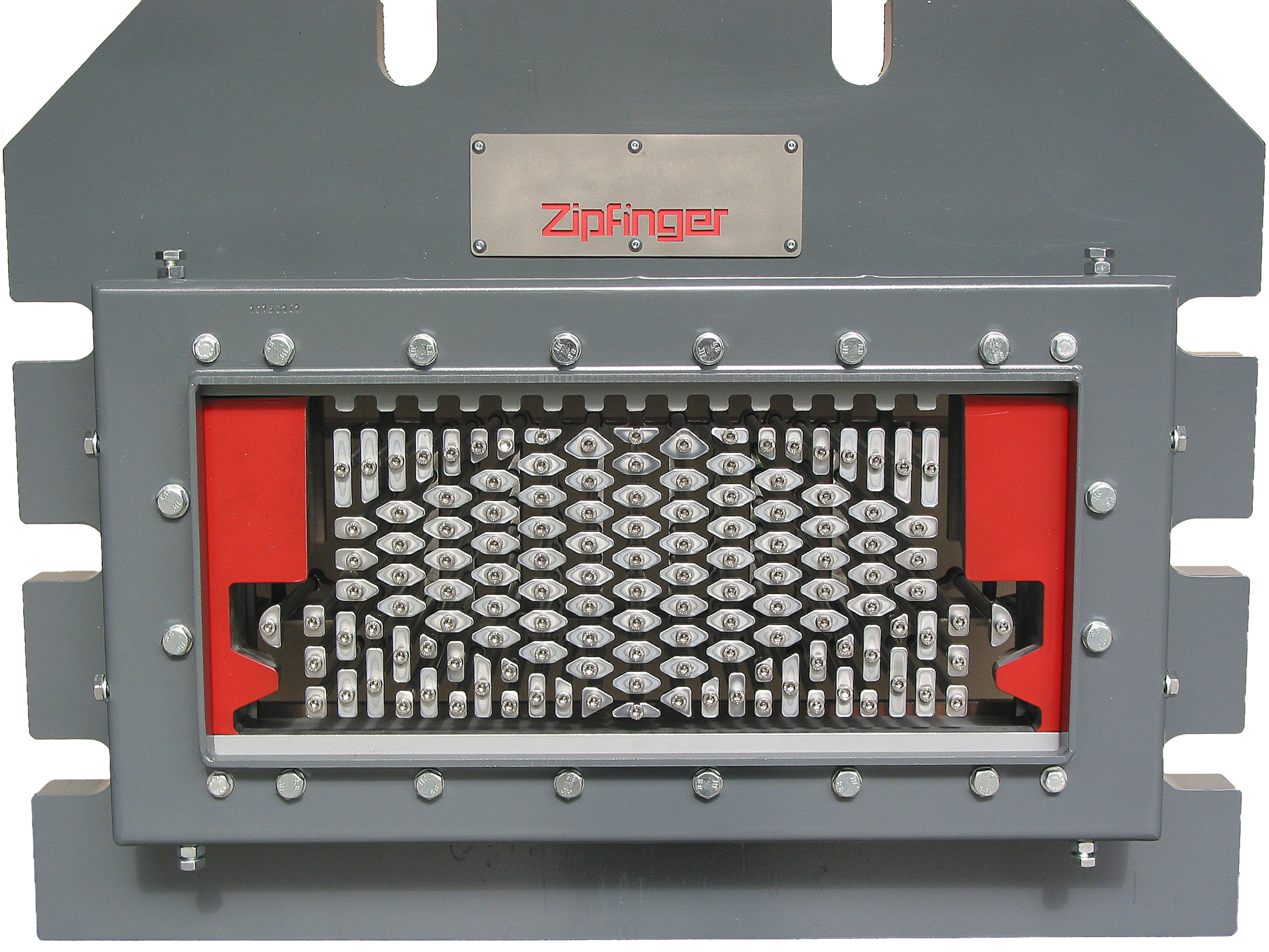 Tool for Brick Extruding